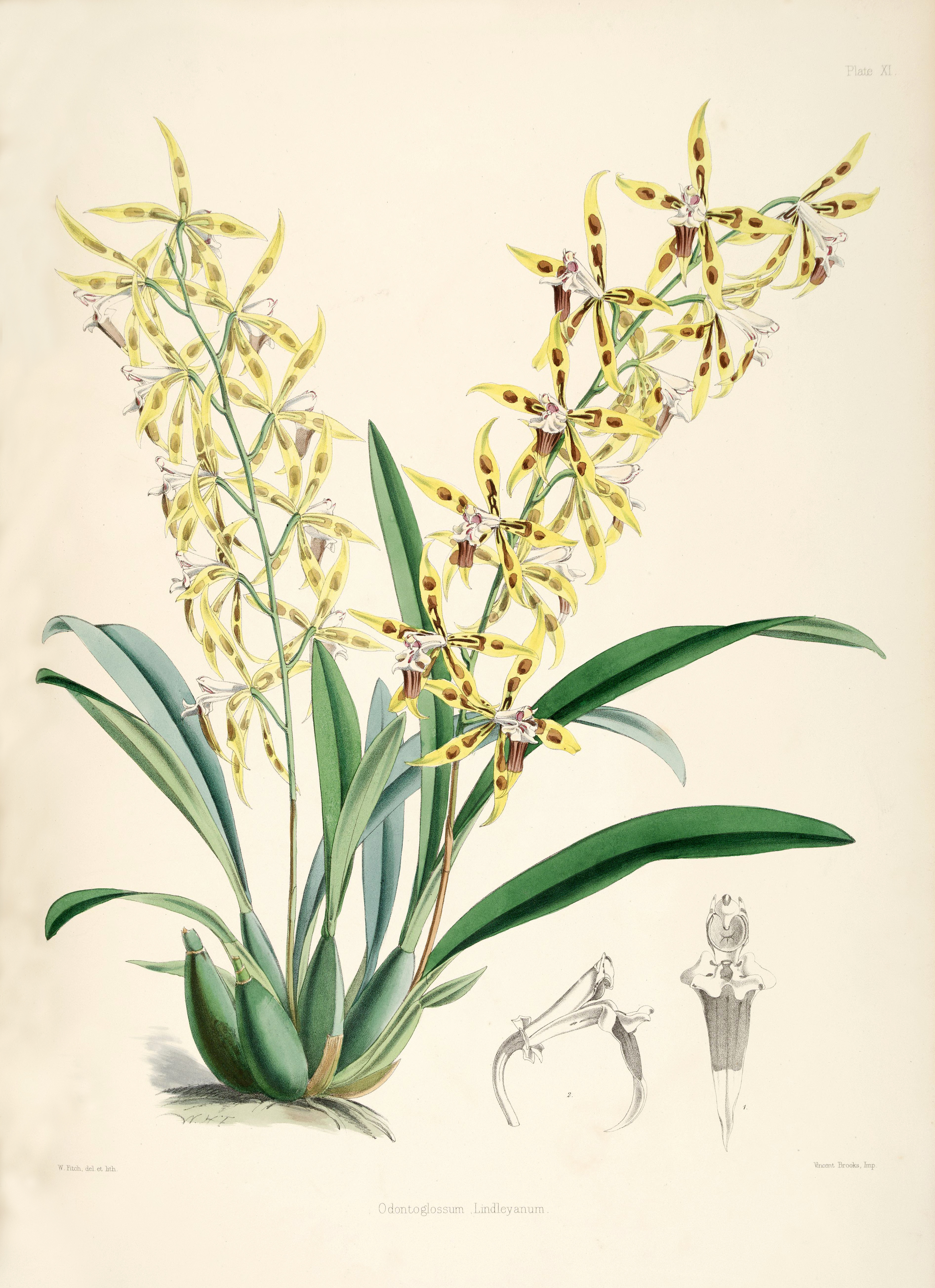 Illustration of Odontoglossum lindleyanum